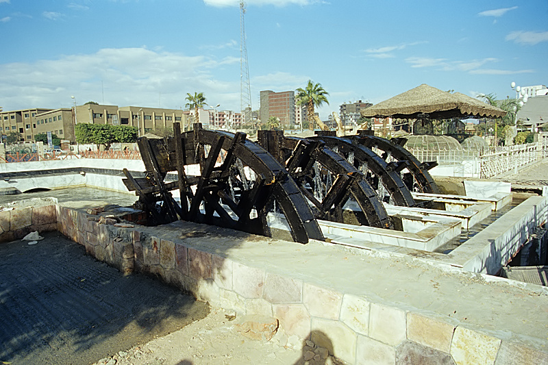 Water wheels, Madinat el-Fayyum, Egypt